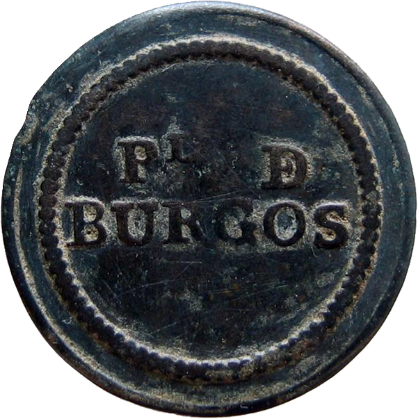 Spanish Military Button of Burgos militians during Independency war against French Army (1808).